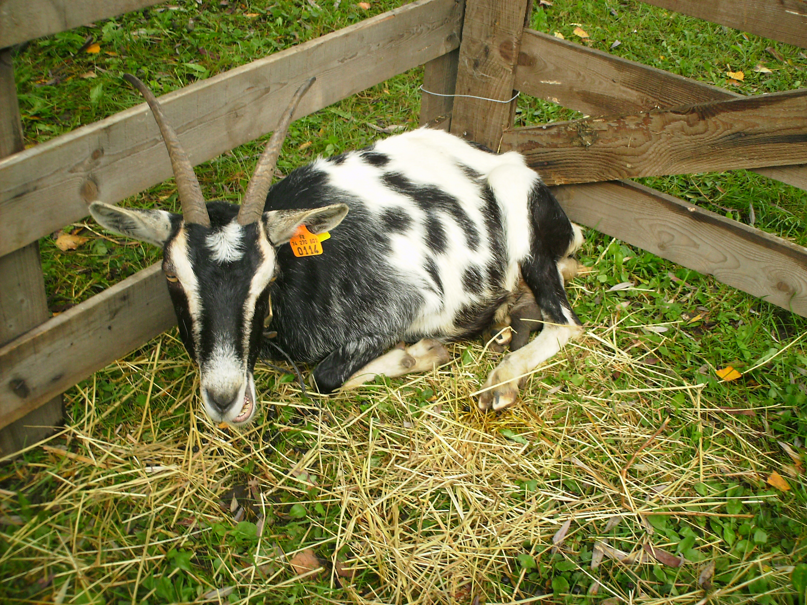 Polychrome goat, "Alpine" race